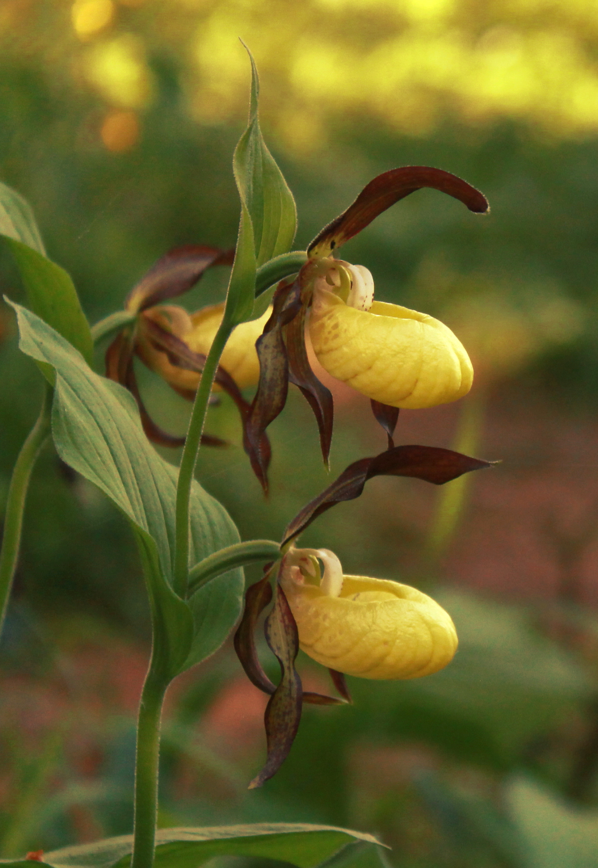 Inflorescence of Cypripedium calceolus with two flowers. The Picture was taken in near Langenenslingen in Baden-Württemberg/Germany.